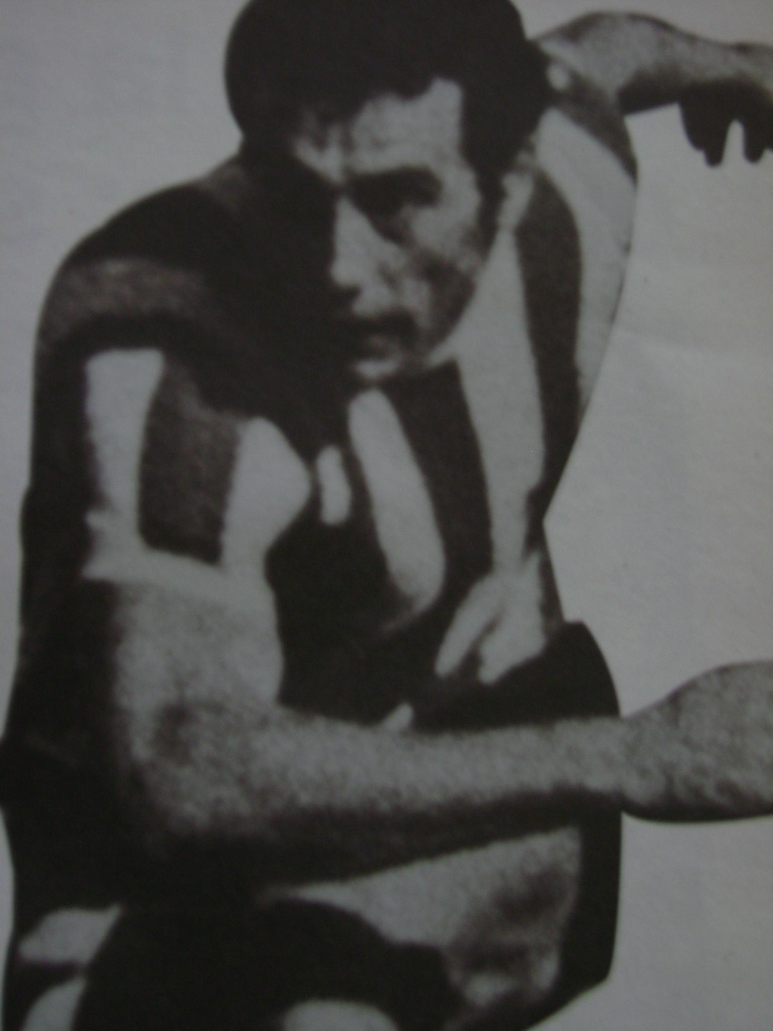 Picture of Ruben Galletti playing for Estudiantes de La Plata taken between 1973 &1982